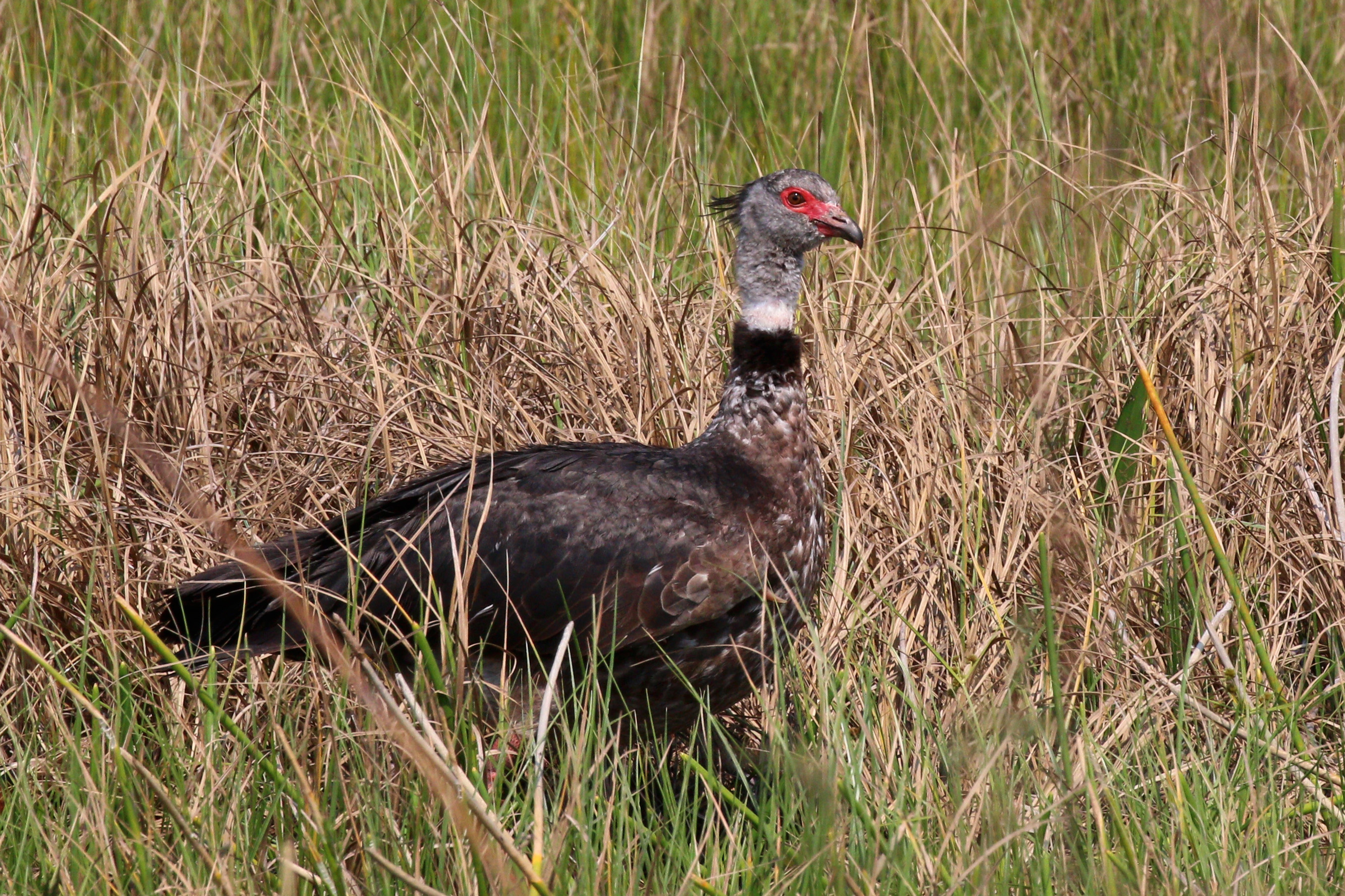 Southern screamer (Chauna torquata), the Pantanal, Brazil